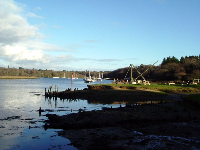 The building slips at Buckler's Hard, New Forest, Hampshire, UK.